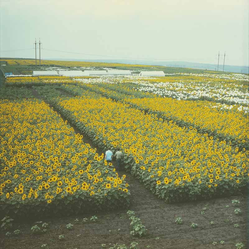 Institute of Field Crops "Selection" (Balti), Moldova.